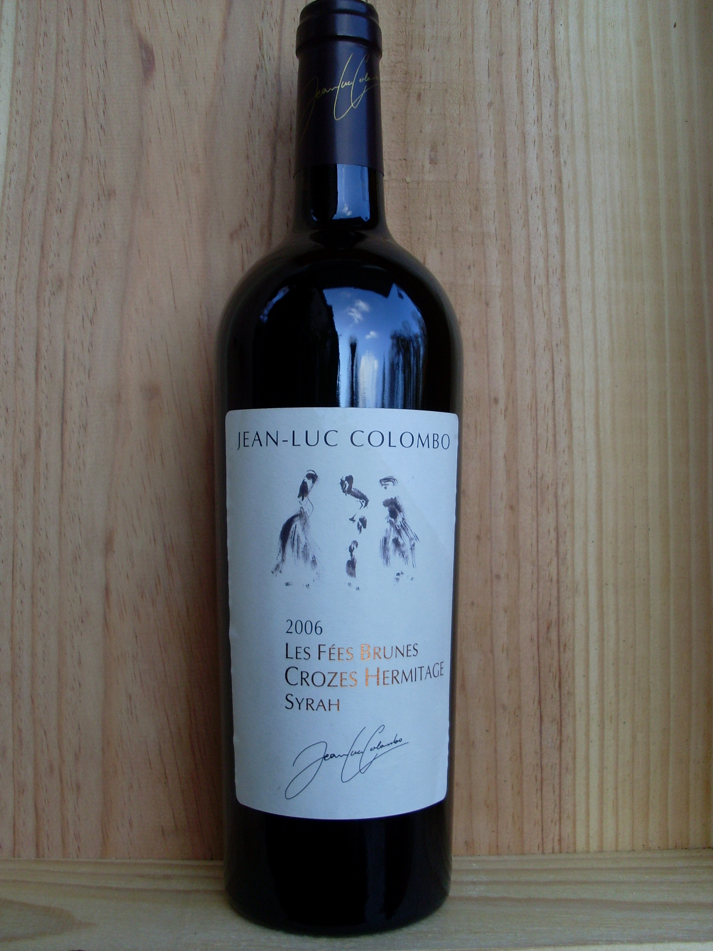 French wine from the Rhone producer Jean-Luc Colombo